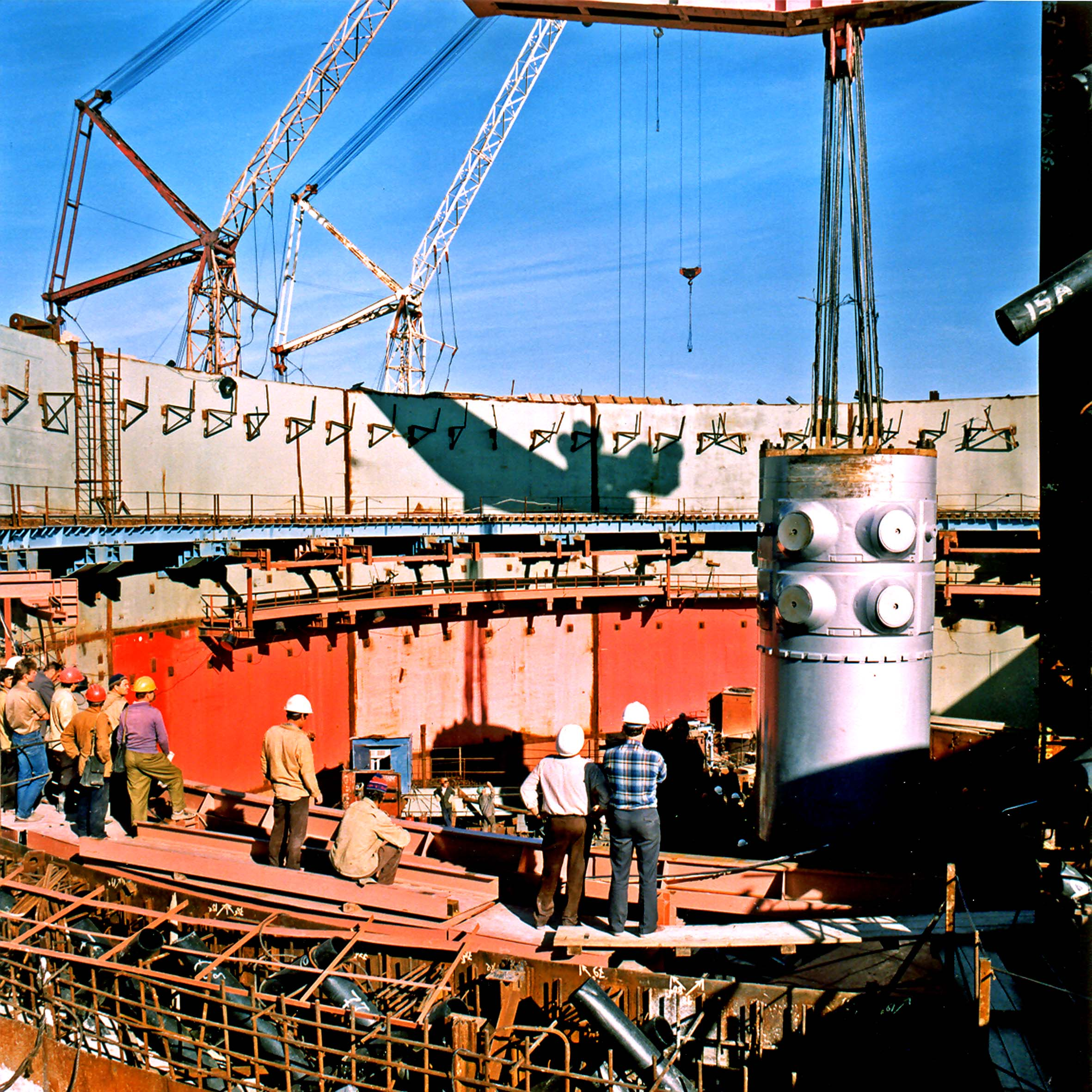 Installation of a reactor pressure vessel at the Balakovo Nuclear Power Plant